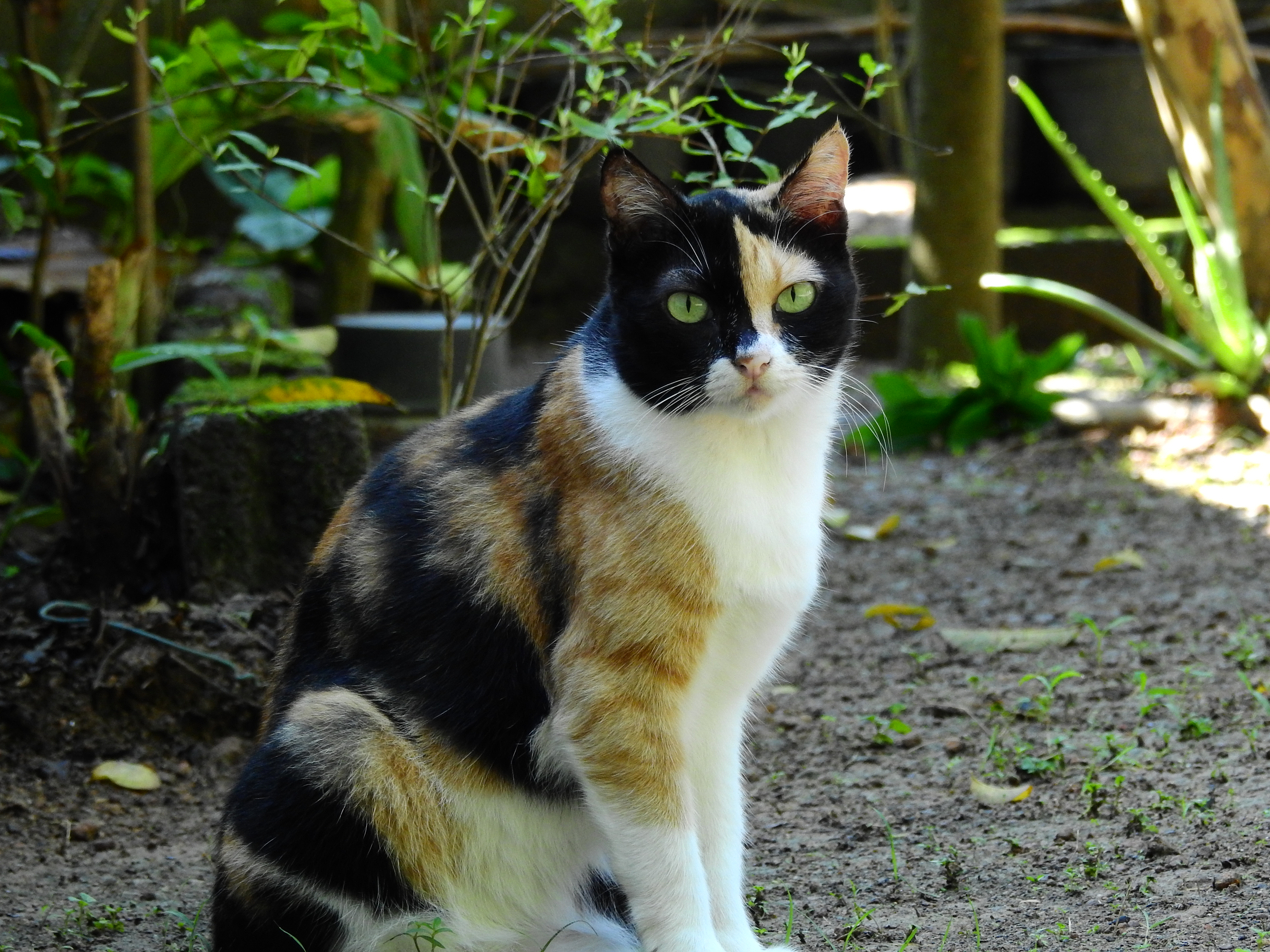 British shorthair with calico coat.